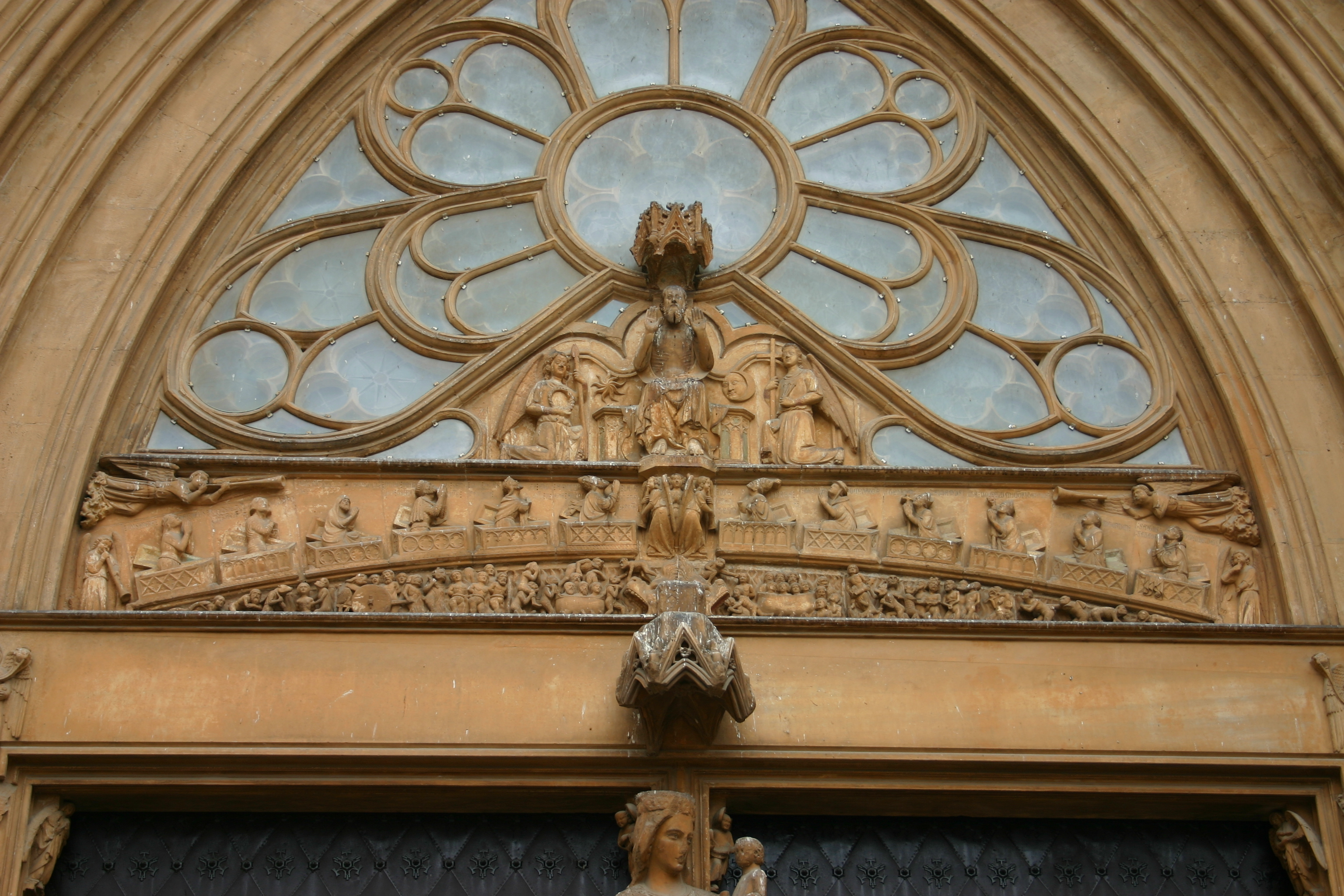 Cathedral of Tarragona, Catalonia (Spain).